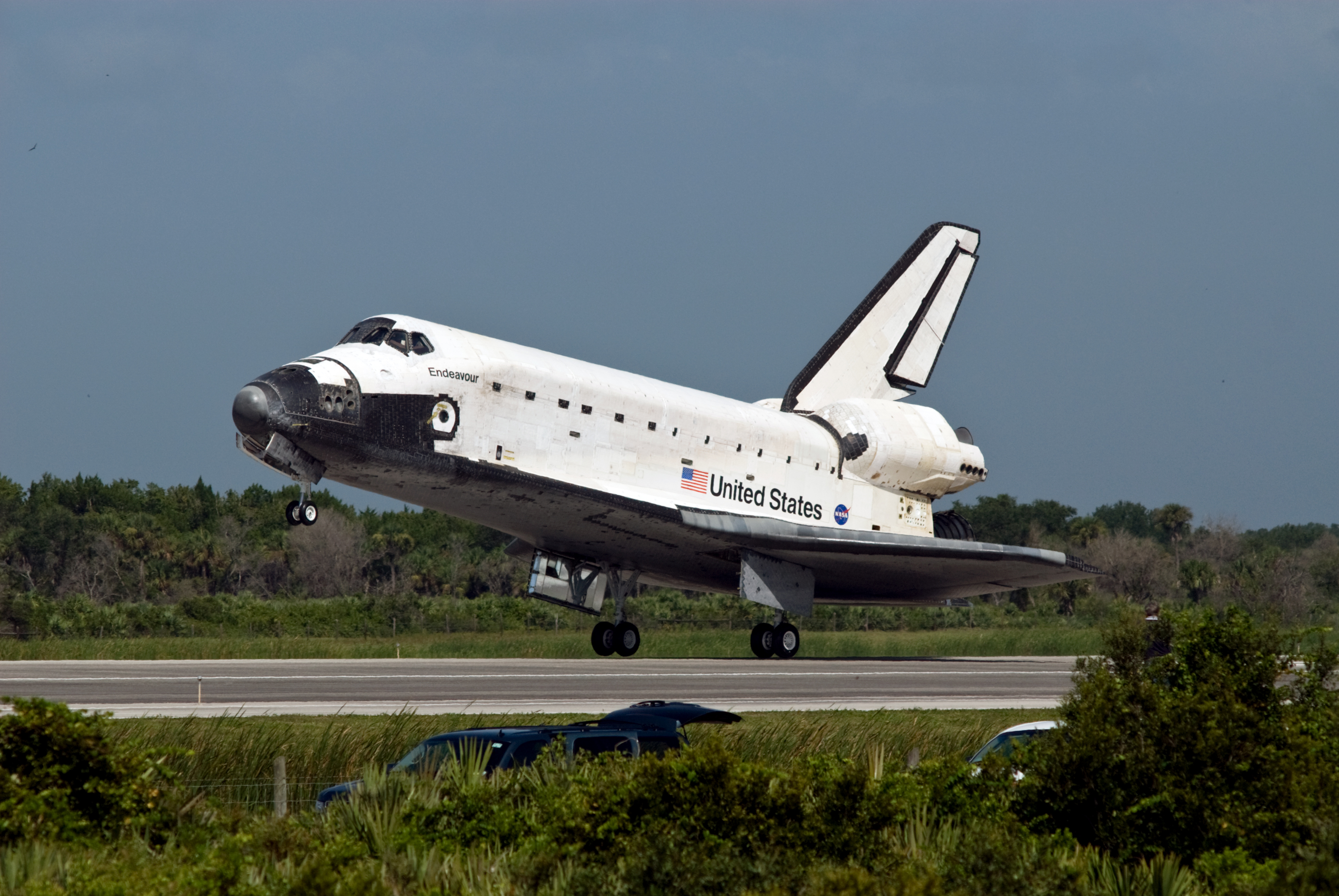 Space Space shuttle Endeavour touches down on Runway 15 at NASA's Kennedy Space Center in Florida to complete the 16-day, 6.5-million mile journey on the STS-127 mission to the International Space Station. Endeavour landed on orbit 248. Main gear touchdown was at 10:48:08 a.m. EDT. Nose gear touchdown was at 10:48:21 a.m. and wheels stop was at 10:49:13 a.m. Endeavour delivered the Japanese Experiment Module's Exposed Facility and the Experiment Logistics Module-Exposed Section to the International Space Station. The mission was the 29th flight to the station, the 23rd flight of Endeavour and the 127th in the Space Shuttle Program, as well as the 71st landing at Kennedy.